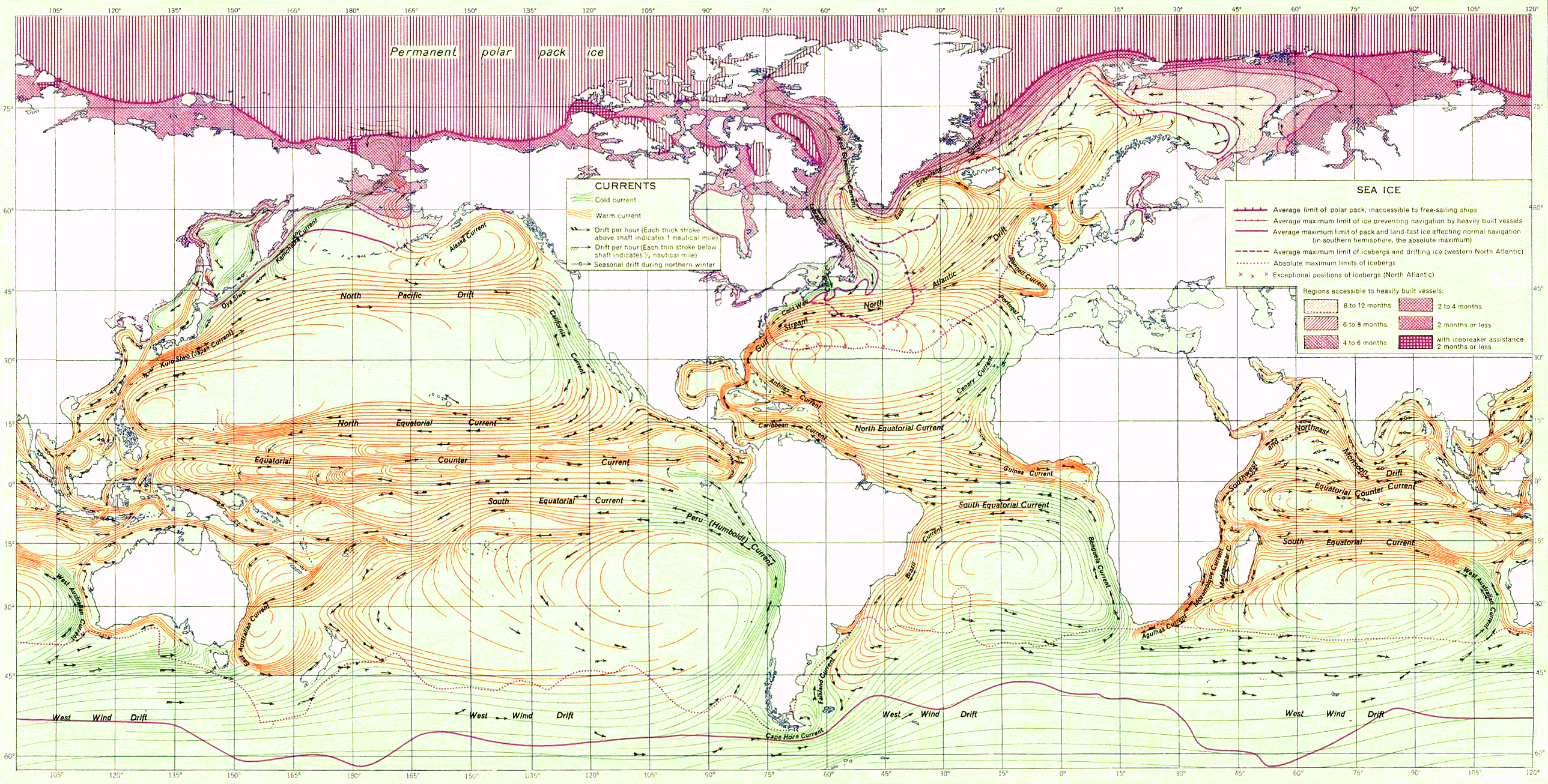 Ocean Currents and Sea Ice from Atlas of World Maps, United States Army Service Forces, Army Specialized Training Division. Army Service Forces Manual M-101 (1943).